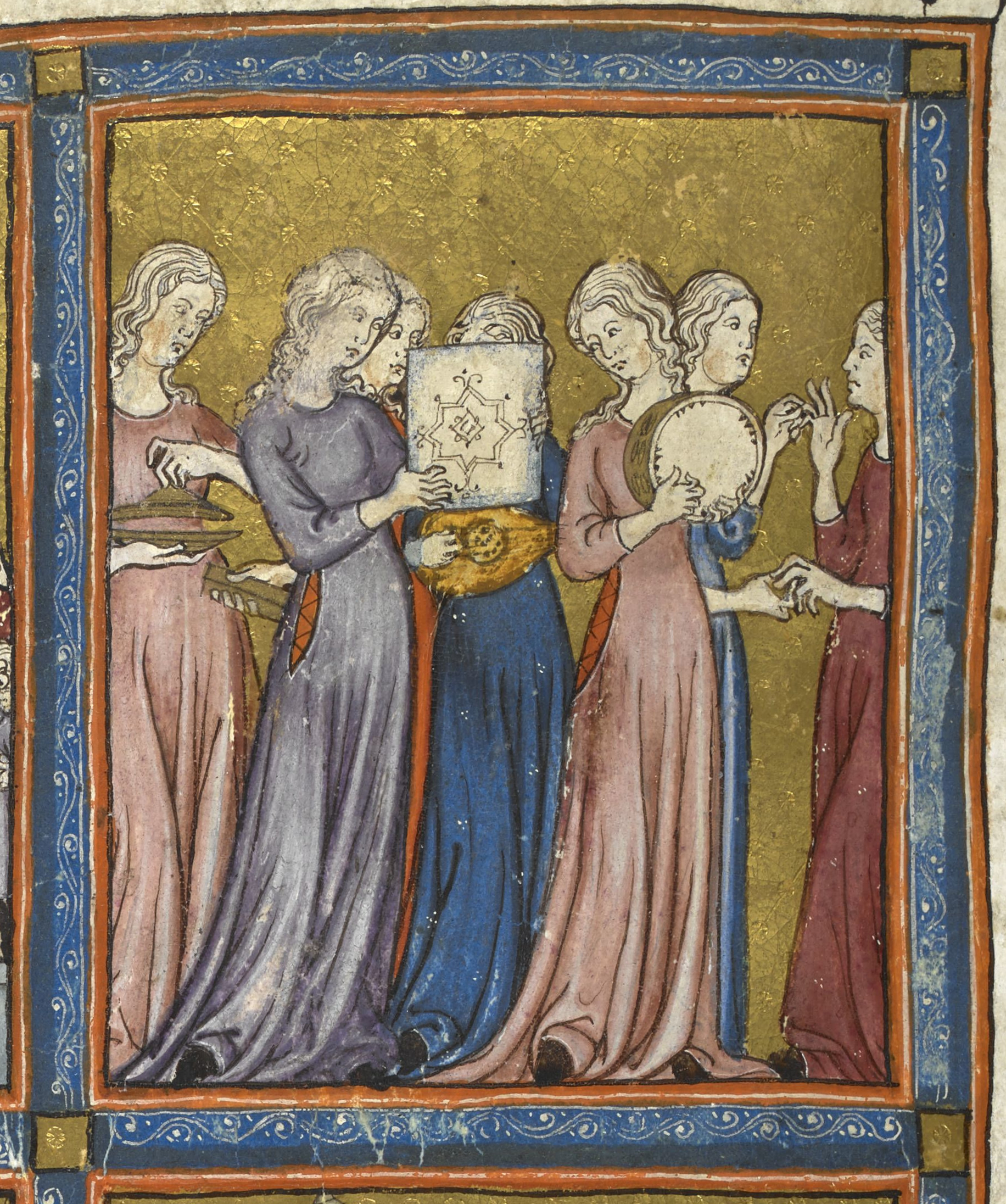 This is a photo of an exhibit at the Diaspora Museum, Tel Aviv - Beit Hatefutsot. The Note says: And Miriam.. took a timbrel in her hand (Exodus 15:20) The Golden Haggadah (?) Barcelona, c.1320 Manuscript on parchment The British library, London